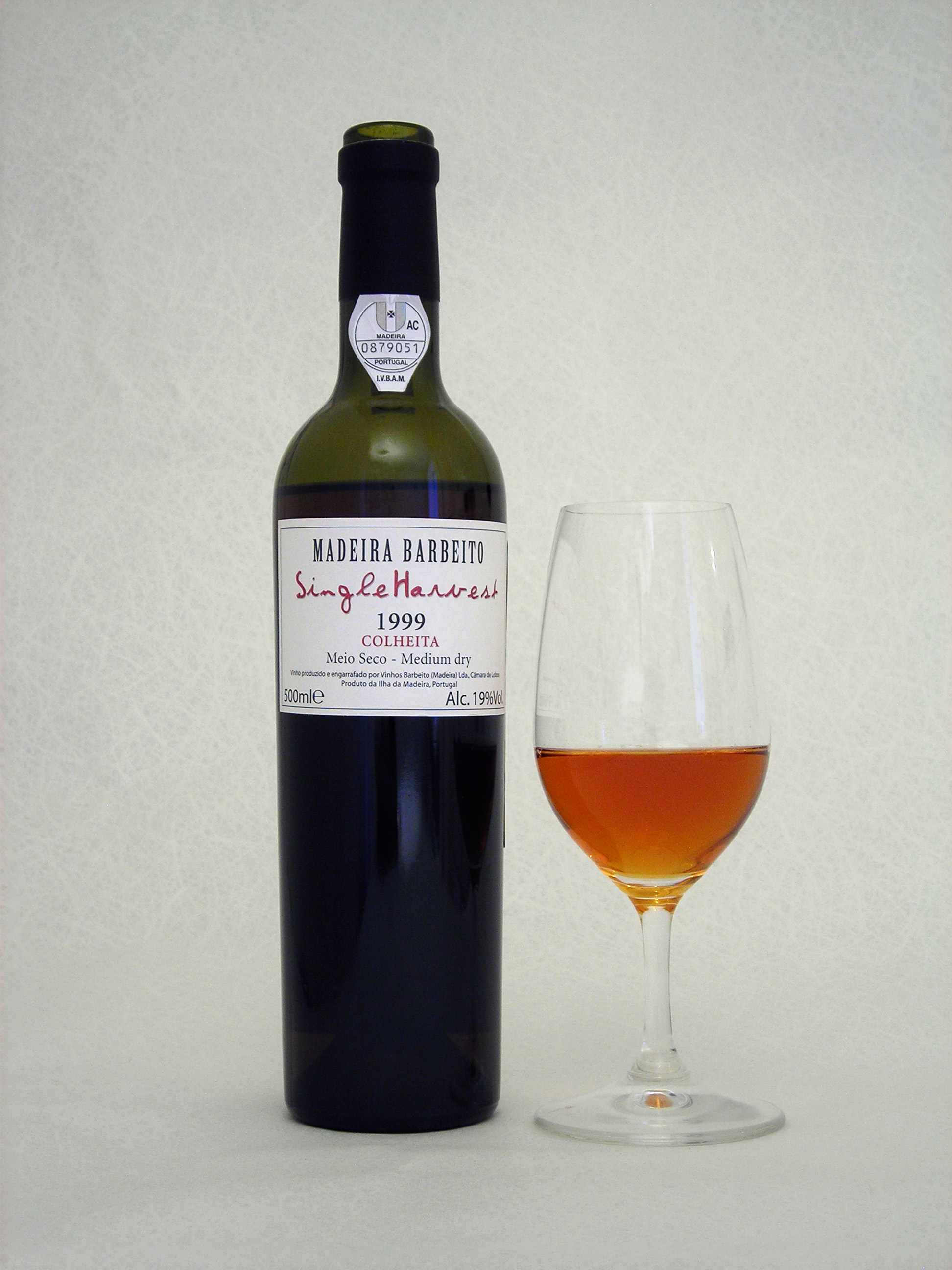 Madeira Barbeito Medium Dry Colheita-1999 Canteiro - Bottle + Glass